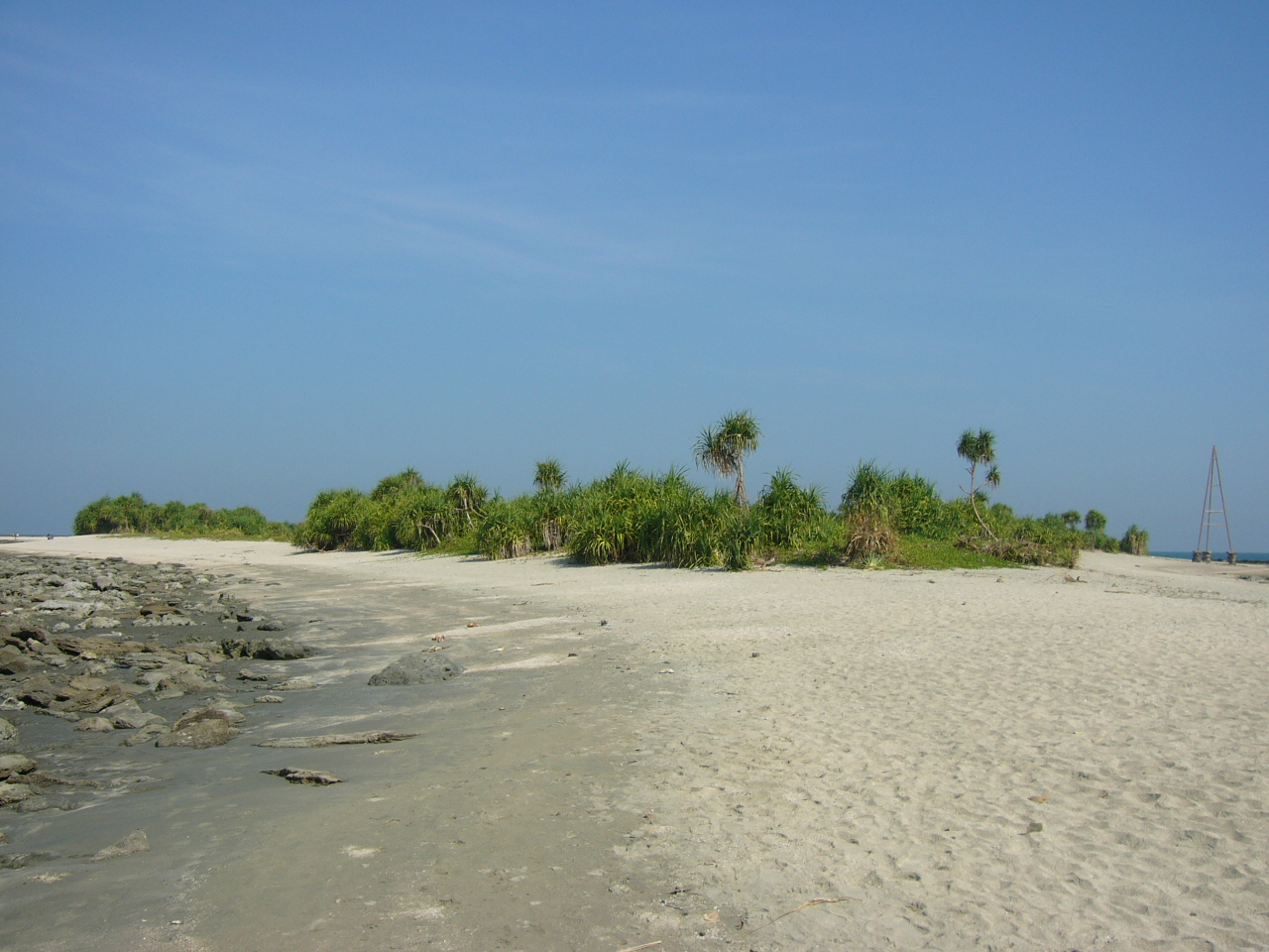 St Martin's Island, Bangladesh Author Shahnoor Habib